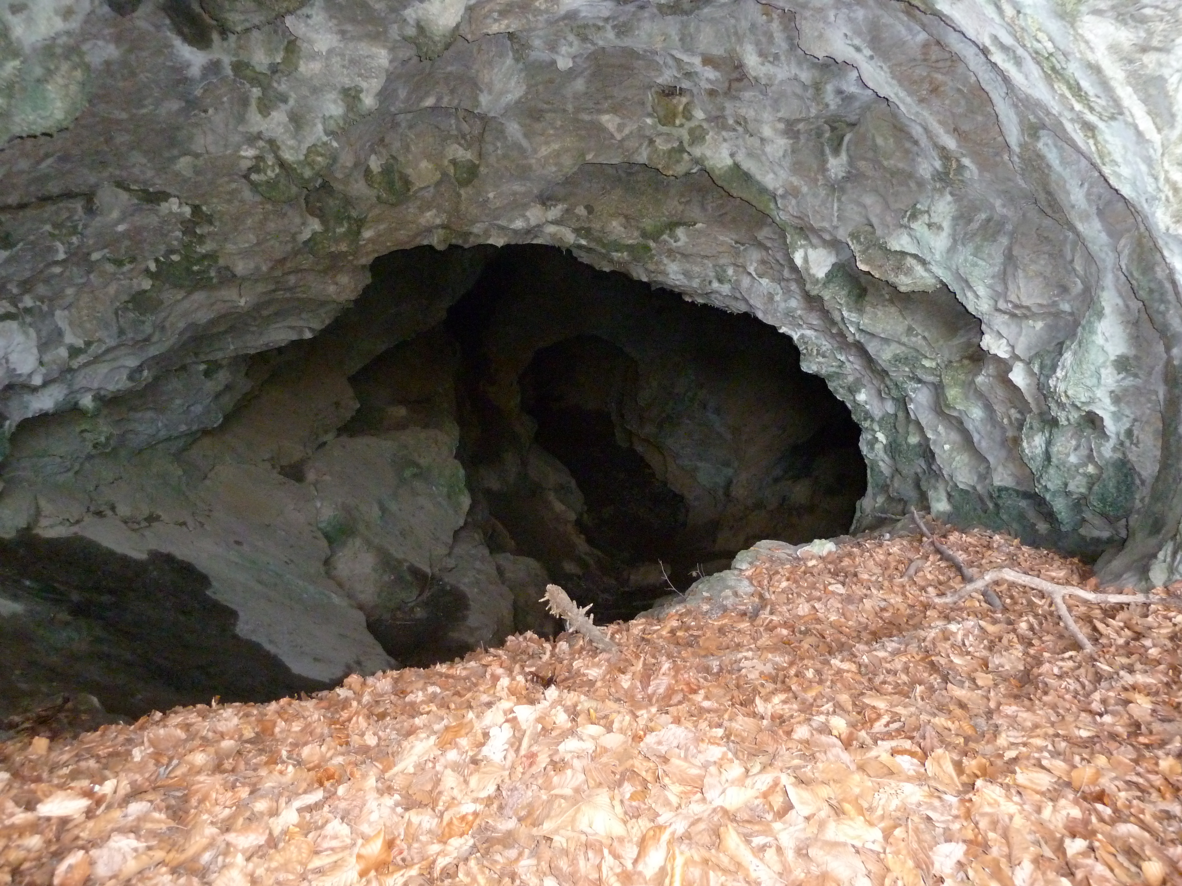 View into the eastern entrance of the cave Valeda in Velmede.